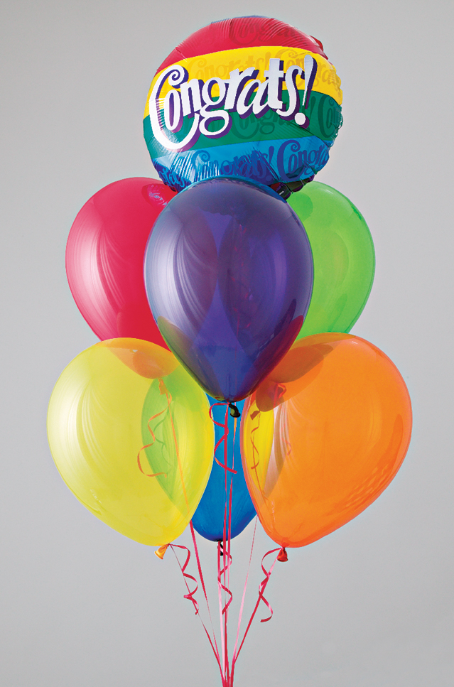 This photo shows a bouquet of six latex and one foil balloon arranged into a "stacked layer" style bouquet. The foil balloon has the word "Congrats" written on it.